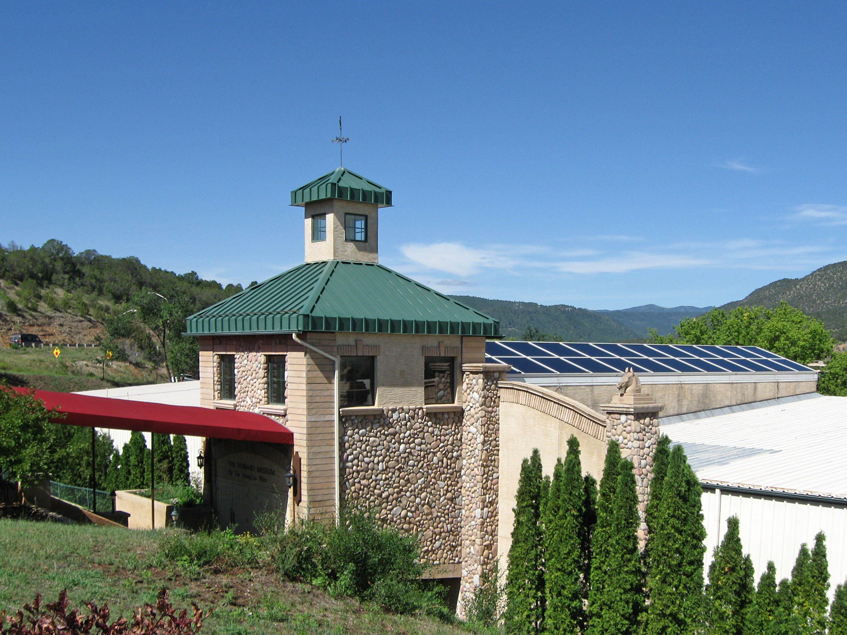 Hubbard Museum of the American West, located at 841 West U.S. Highway 70 in Ruidoso Downs, New Mexico.